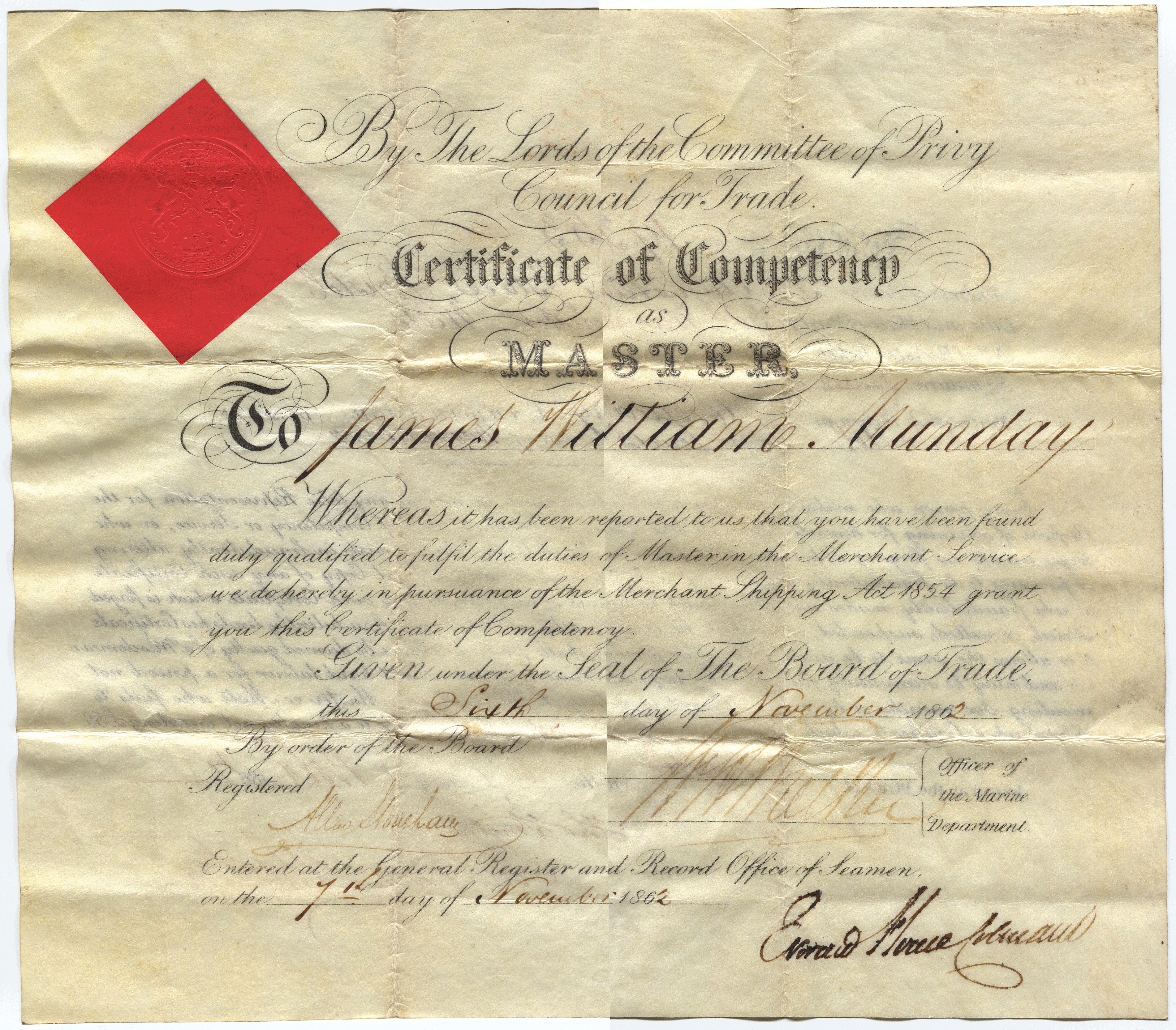 James William Munday's Certificate of Competency as Master. See also Page 2.